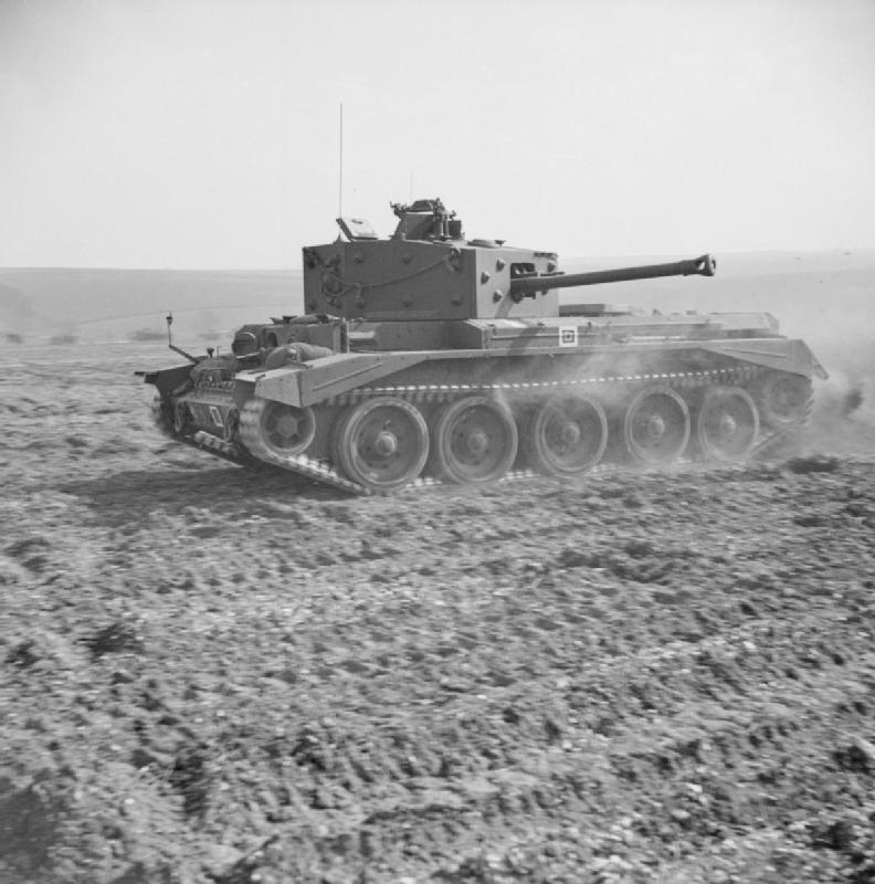 The British Army in the United Kingdom 1939-45 A Cromwell Mk IV of No. 2 Squadron, 2nd (Armoured Reconnaissance) Battalion, Welsh Guards, at Pickering in Yorkshire, 31 March 1944, displays its speed during an inspection by Winston Churchill. The tank is named 'Blenheim'. This tank was the mount of Major John Ogilvie Spencer, commanding No. 2 Squadron, and later killed in Belgium on 9 September 1944.